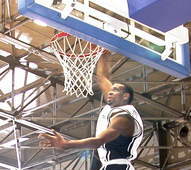 Description: Michel Morandais Source: self-made Location: Naples, Italy Photographer: Massimo Finizio